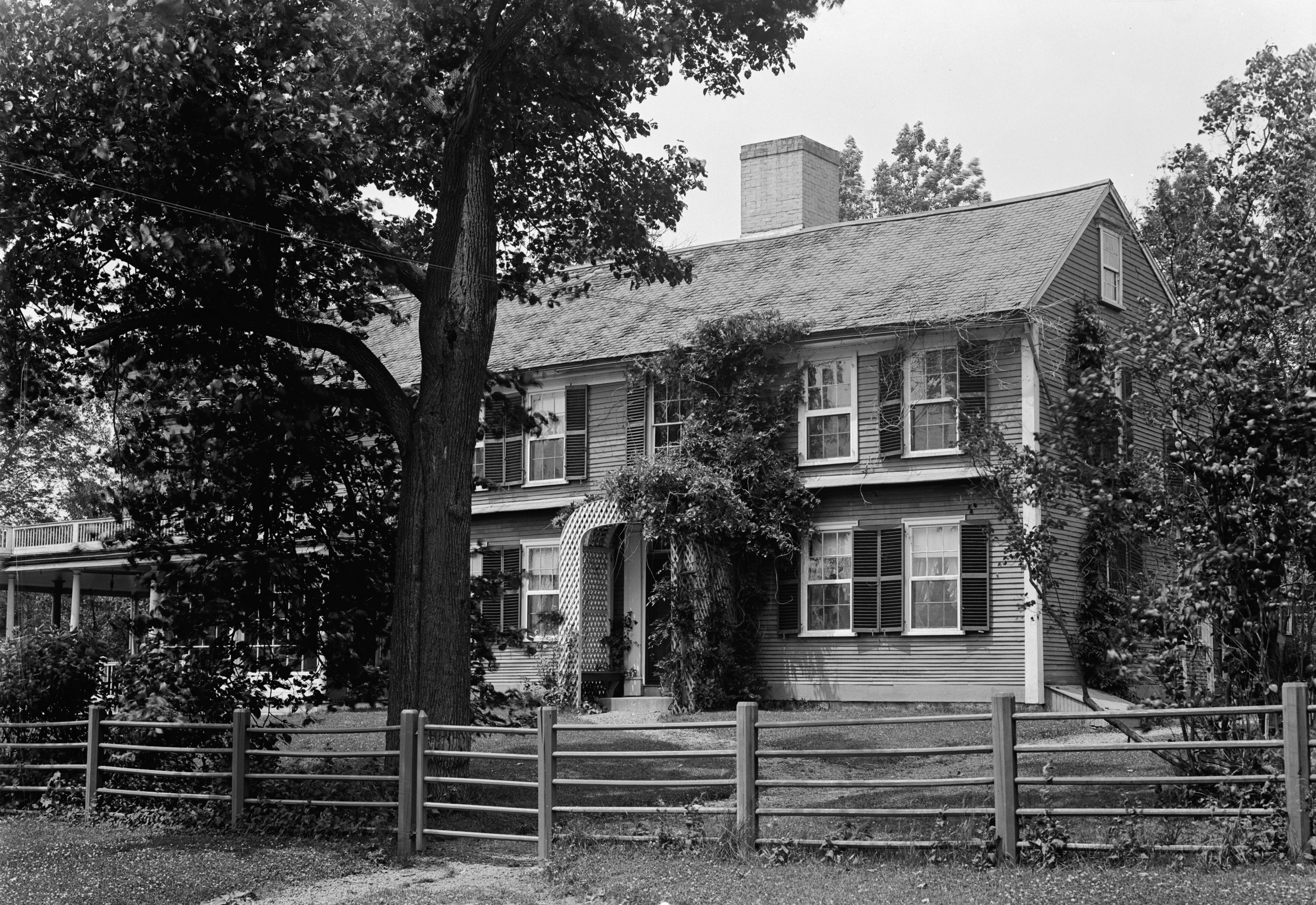 Colonel William Prescott House, Pepperell, Middlesex County, MA. EXT.-FRONT, LOOKING NORTHWEST. June 18, 1941. Photographer: Frank O. Branzetti. Repository: Library of Congress, Prints and Photograph Division, Washington, D.C. 20540 USA. Public Domain.